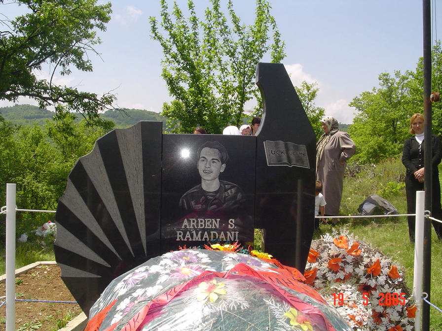 Plaka in_memorium in Kokaj